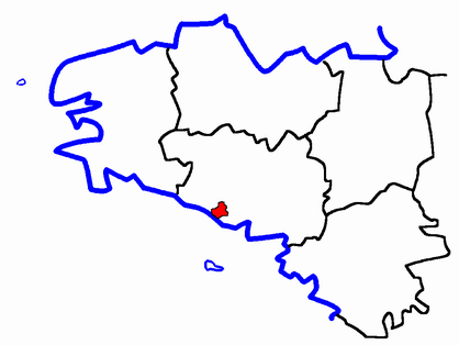 Description: Map for localisazion of cantons of Bretagne region in France Source: made by Hervé Tigier in april 2005 from another large map (published in 1990)